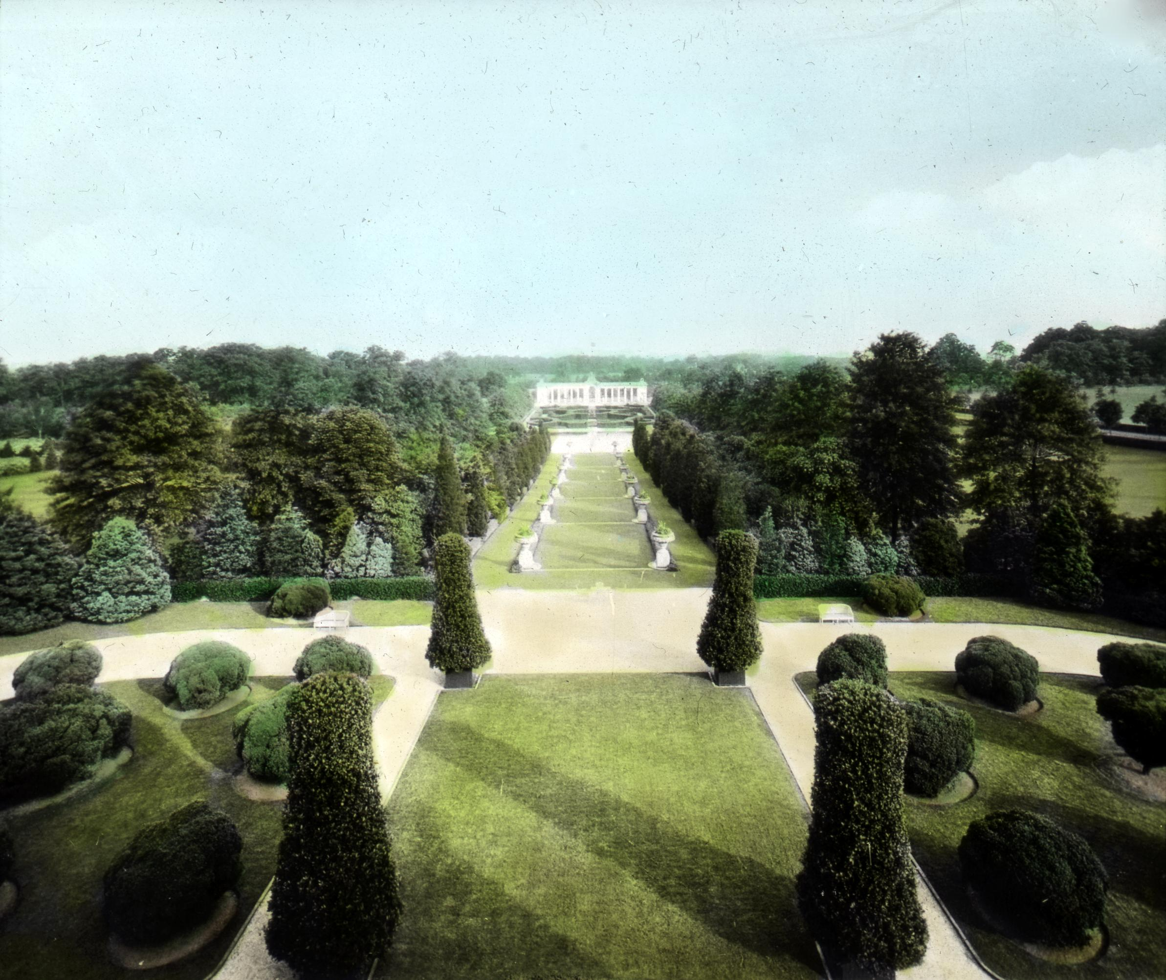 Original Collection: Arthur Peck Collection, P99 Item Number: P099_D_765 You can find this image by searching for the item number by clicking here. Want more? You can find more digital resources online. We're happy for you to share this digital image within the spirit of The Commons; however, certain restrictions on high quality reproductions of the original physical version may apply. To read more about what “no known restrictions” means, please visit the Special Collections & Archives website, or contact staff at the OSU Special Collections & Archives Research Center for details.